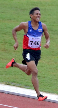 Athletes during 22nd Asian Athletics Championships in Bhubaneswar.